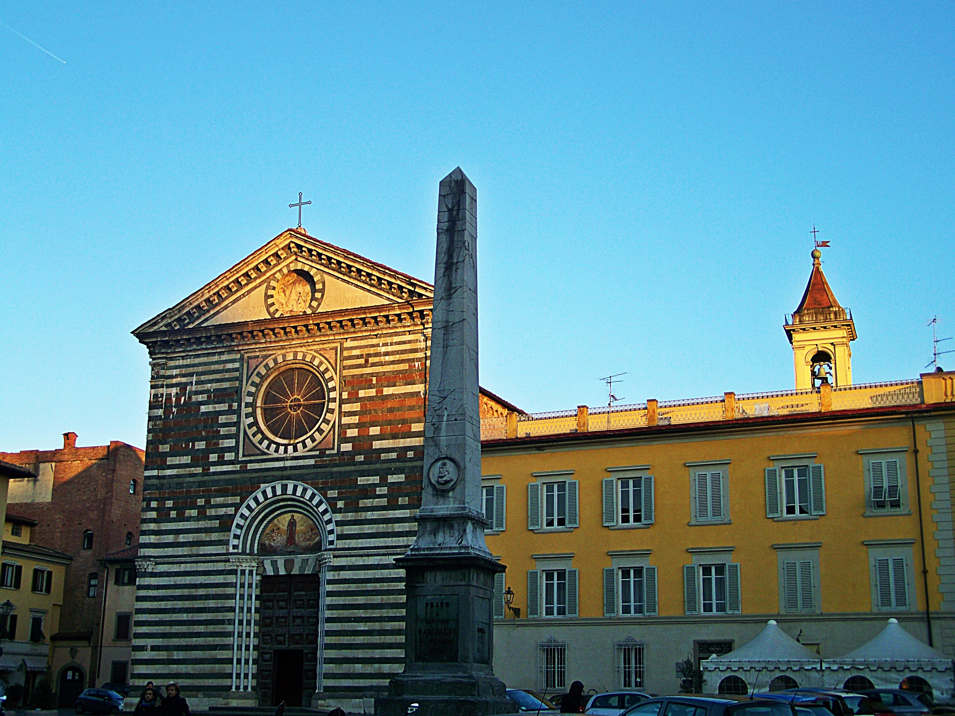 facade